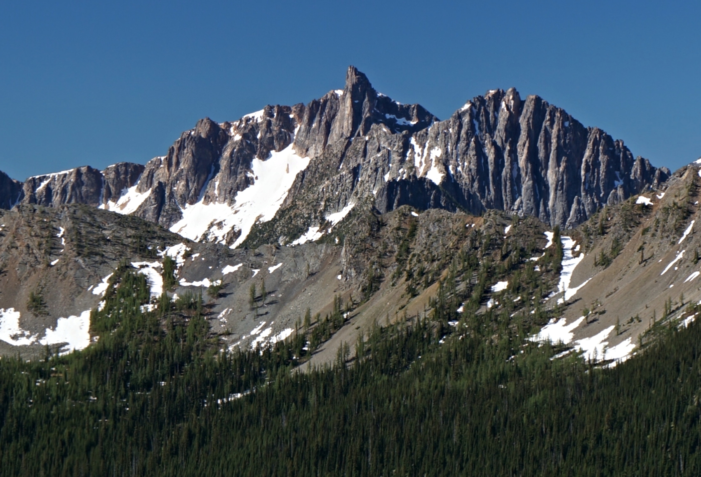 Golden Horn and Holliway Mountain seen from Harts Pass area